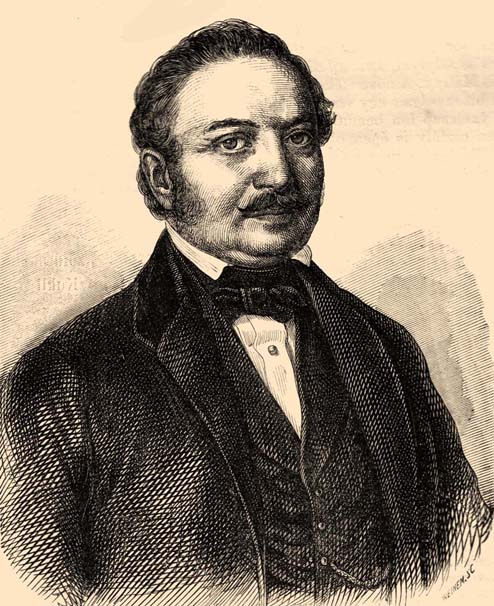 Portrait of Gábor Mátray